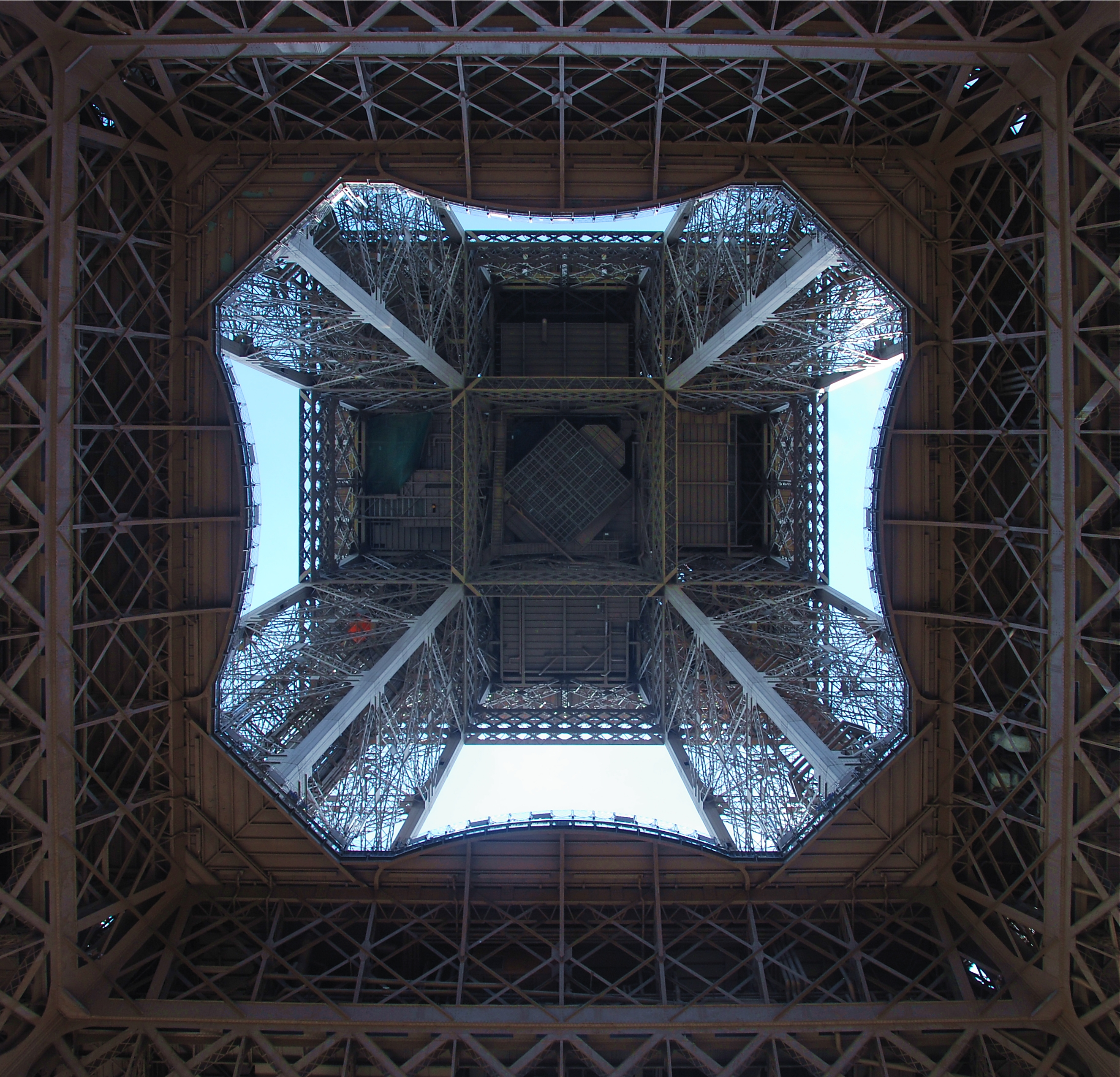 The Eiffel Tower, Paris. View from below.